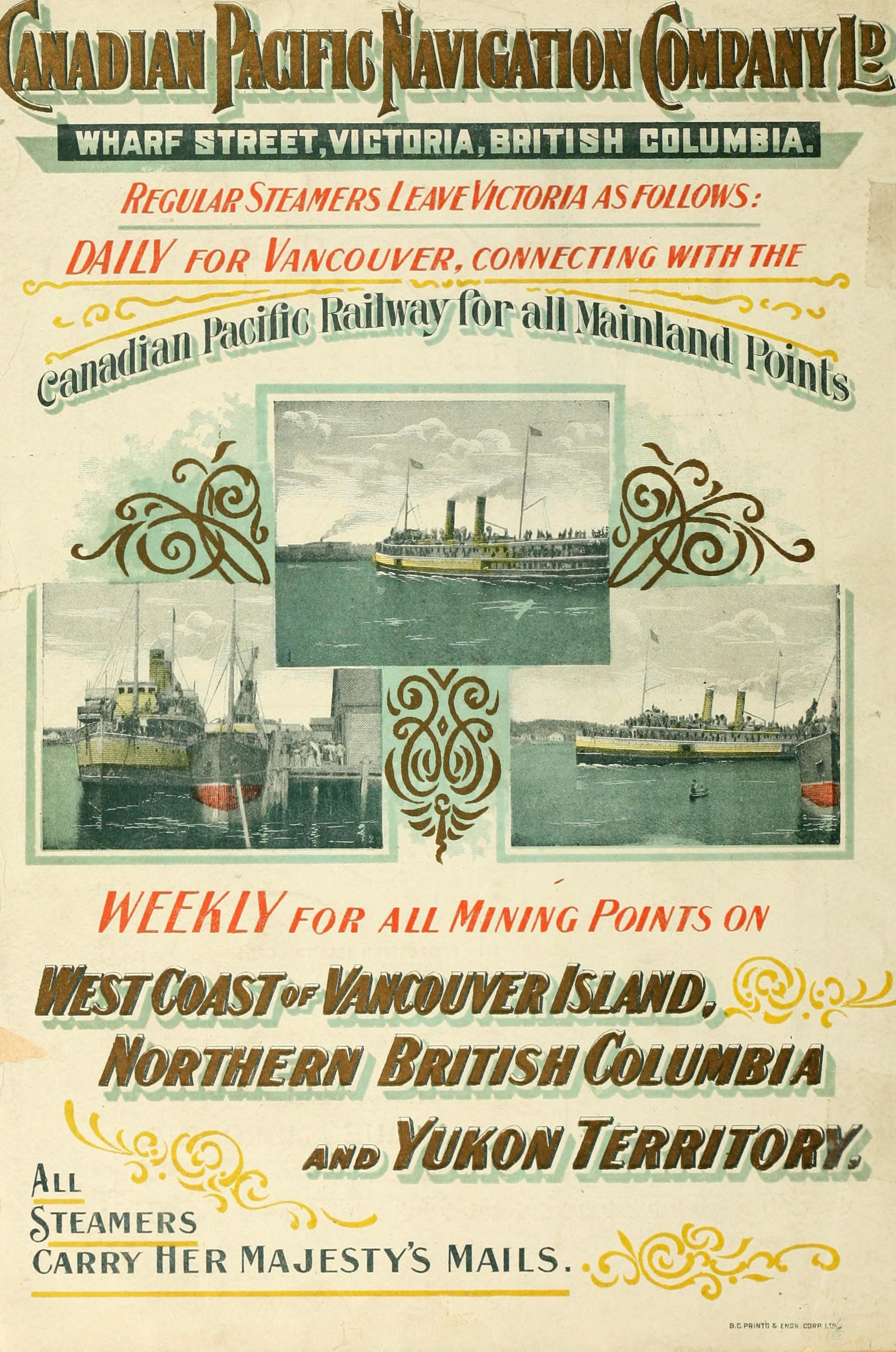 Advertisement for Canadian Pacific Navigation Company, printed on back cover of British Columbia Mining Record, December 1899 issue.